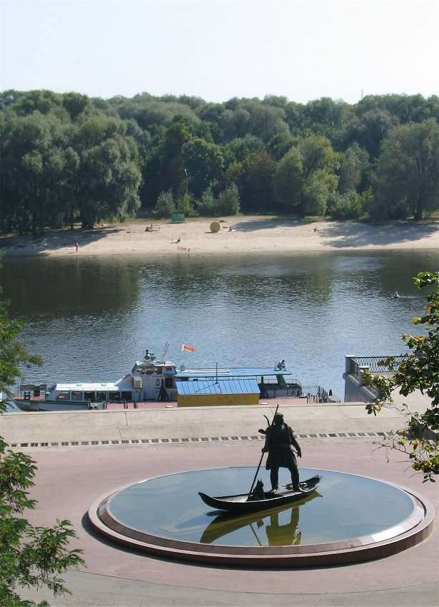 View in Gomel towards the River Soz and beach on the other side of the river, Gomel Province, Belarus. Photo: late summer 2009.